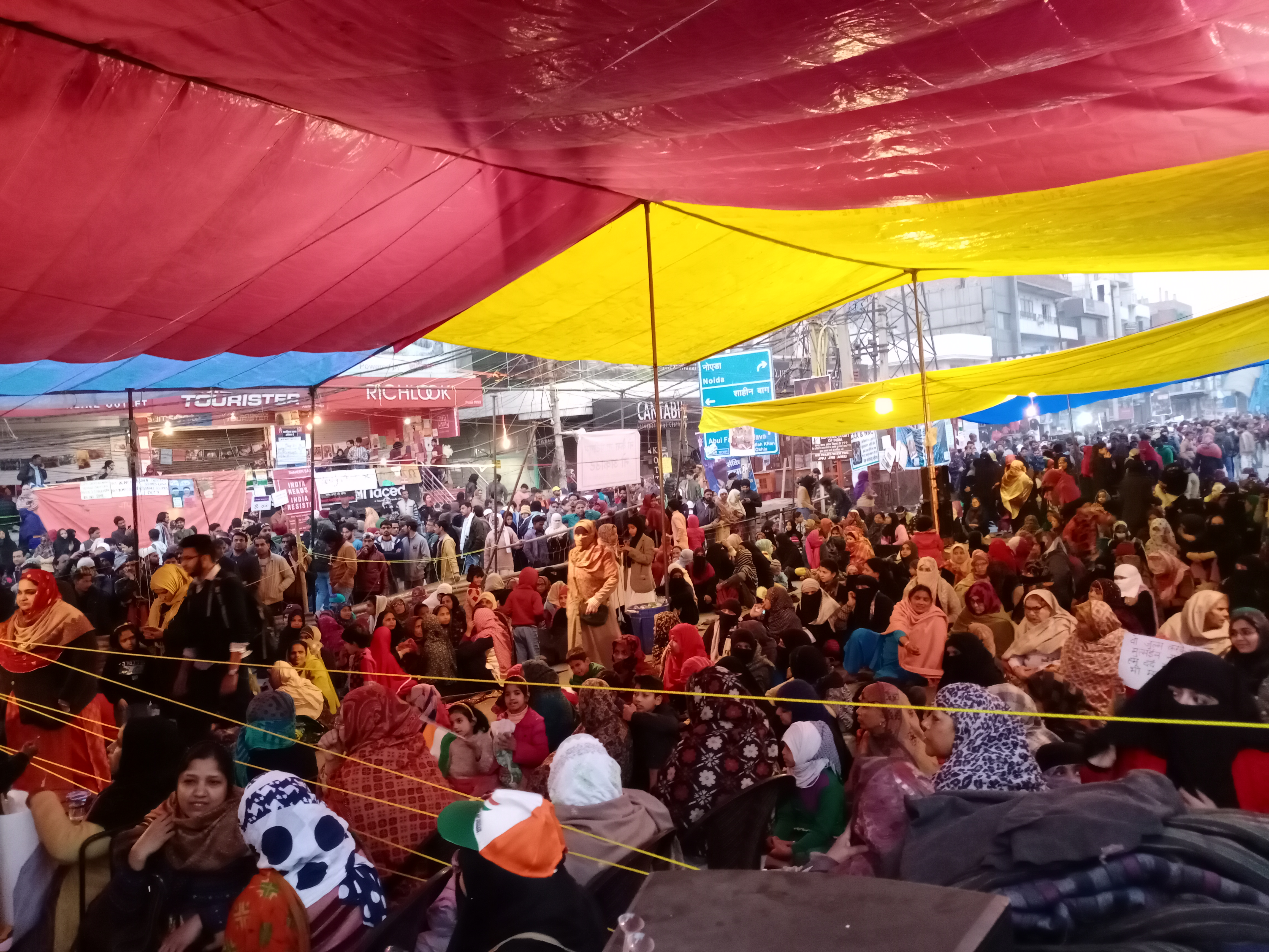 Shaheen Bagh women protesters blocking a major road in New Delhi for 28 days. Visual taken on 11 Jan 2020.